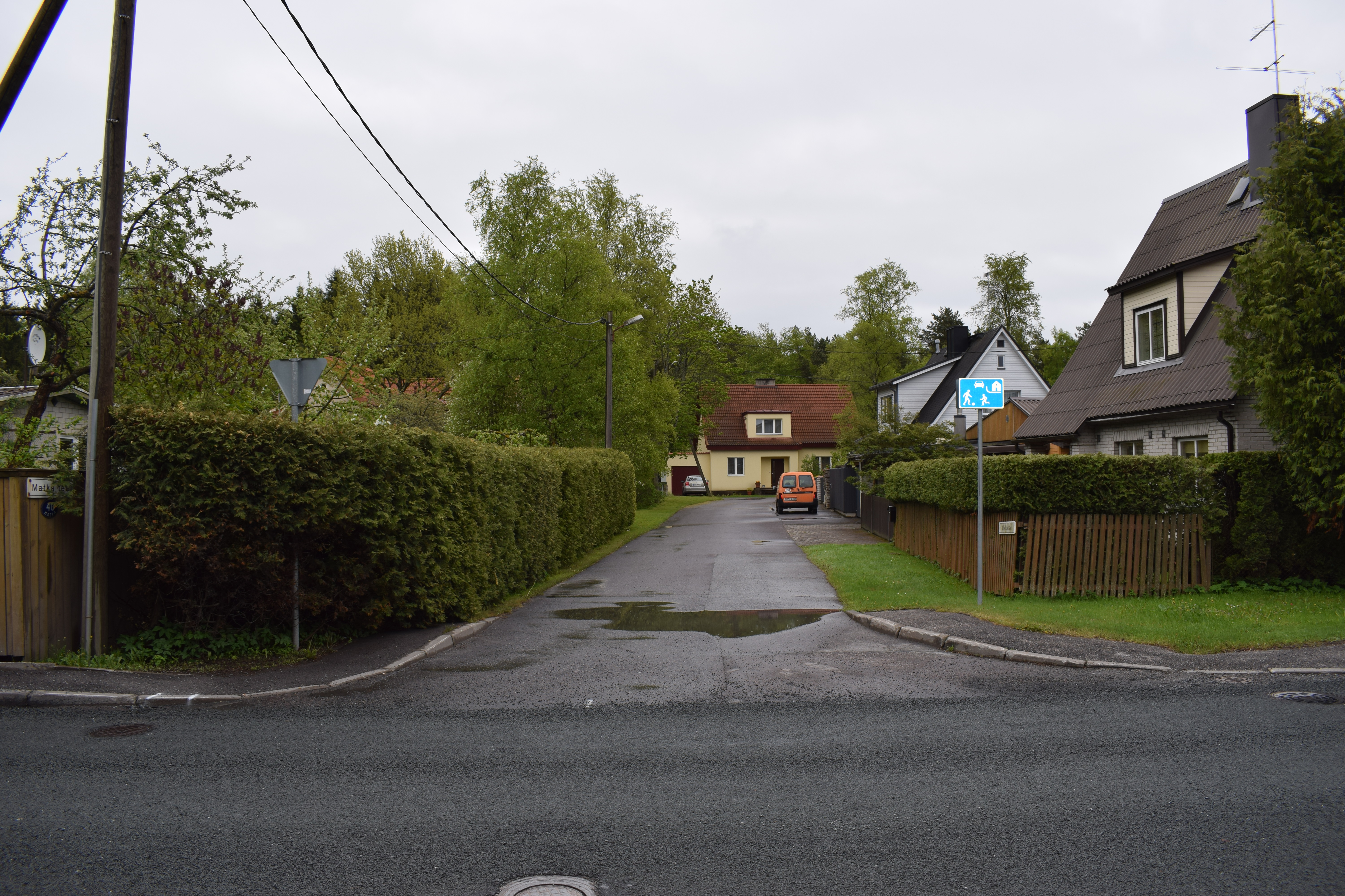 Matka road